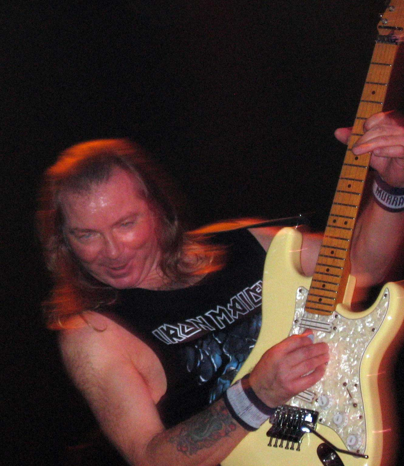 Dave Murray, Iron Maiden's guitarist, during a show in Barcelona (A Matter of Life and Death World Tour).